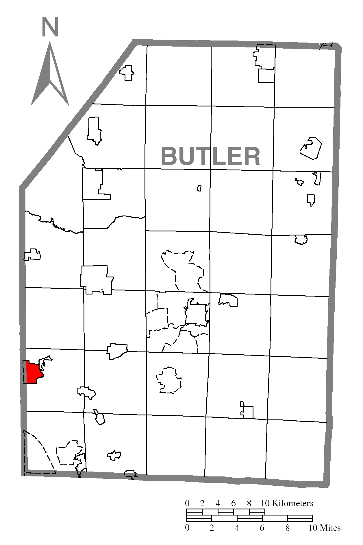 A map of Butler County showing Zelienople, Pennsylvania (alternate) highlighted on the map.